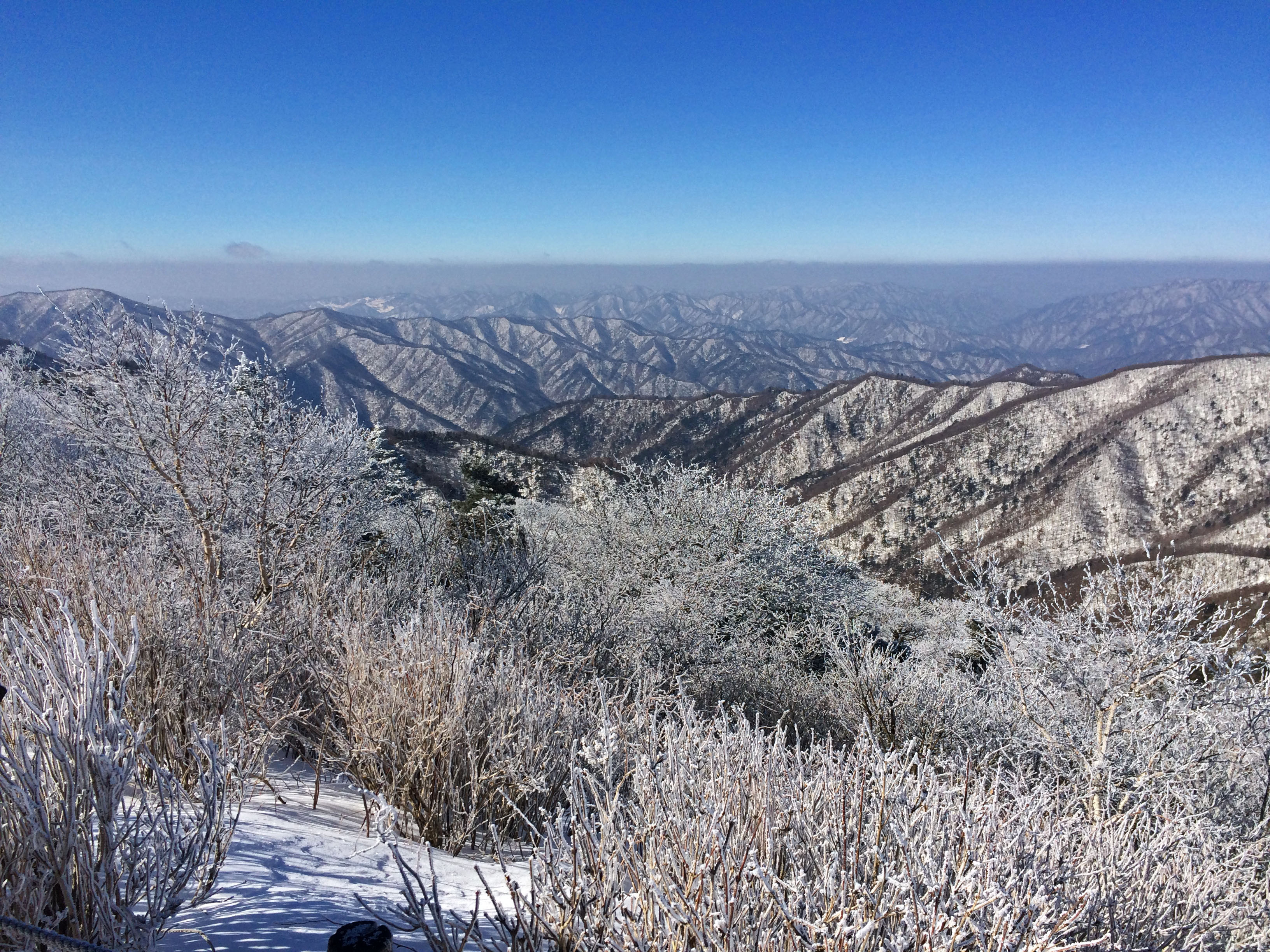 This photo was taken from Birobong Peak in Odaesan National Park.